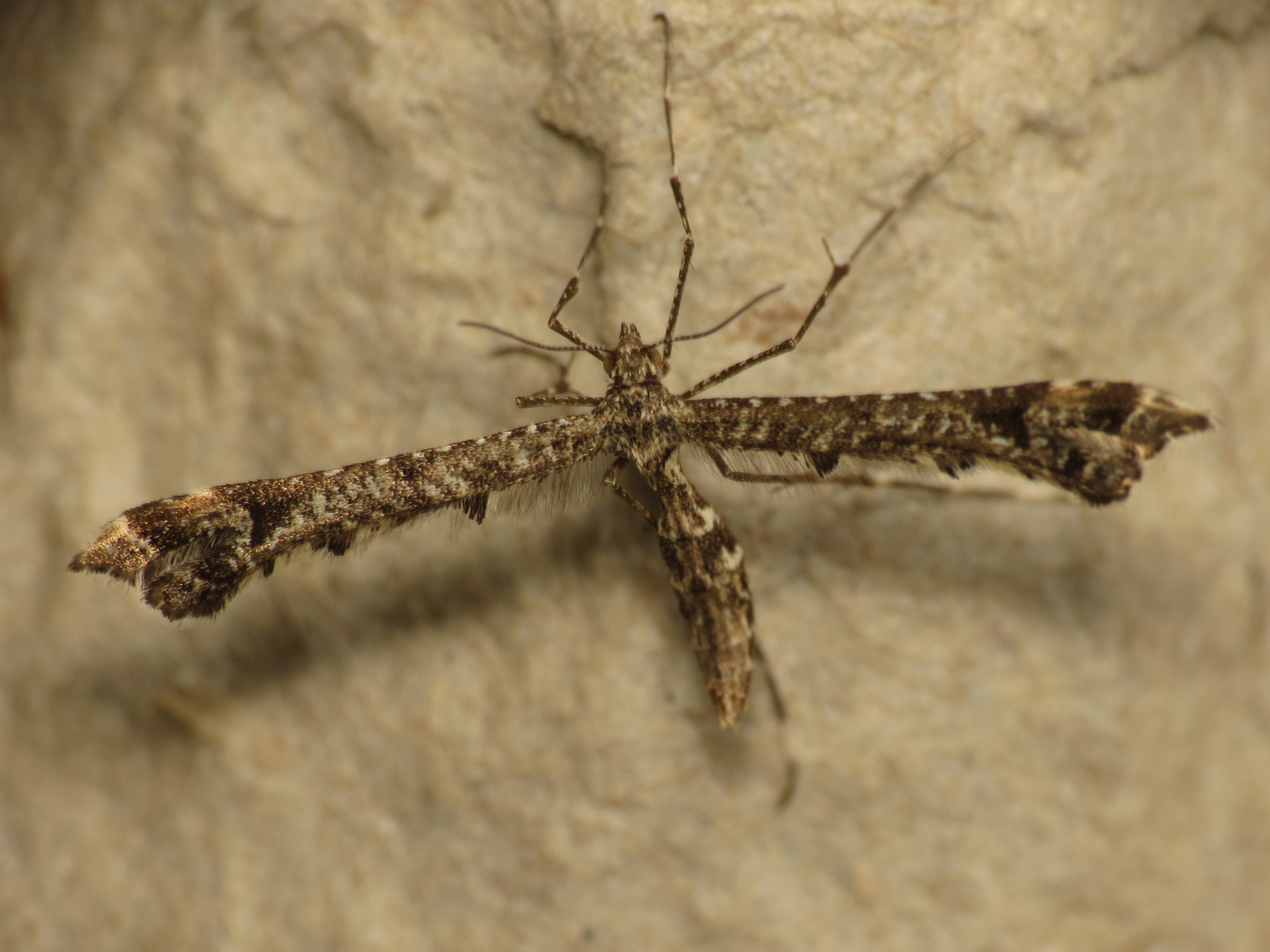 Amblyptilia punctidactyla (Haworth, 1811), to Robinson trap, Søborg, Denmark, 26/27 July 2013